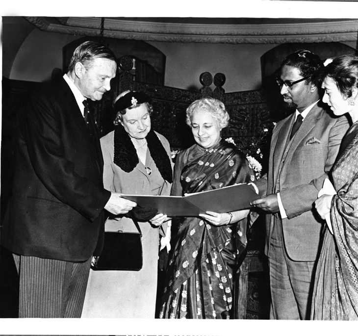 X.P. Division, A39a/A22a(iii) Shri Mihir Sen, who recently swam the English Channel, being presented a certificate by Lord Freyberg on behalf of the Counsel Swimming Association at a function held at the India House, London.